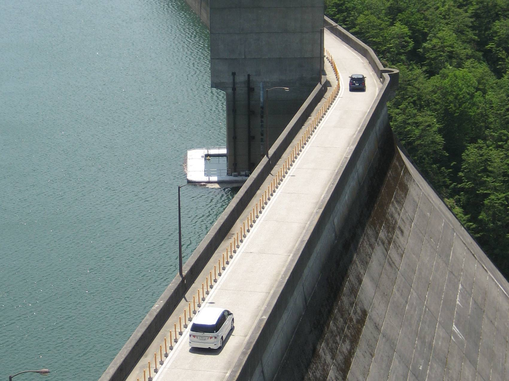 Arimine Dam (有峰ダム) in Toyama city, Toyama prefecture, Japan.